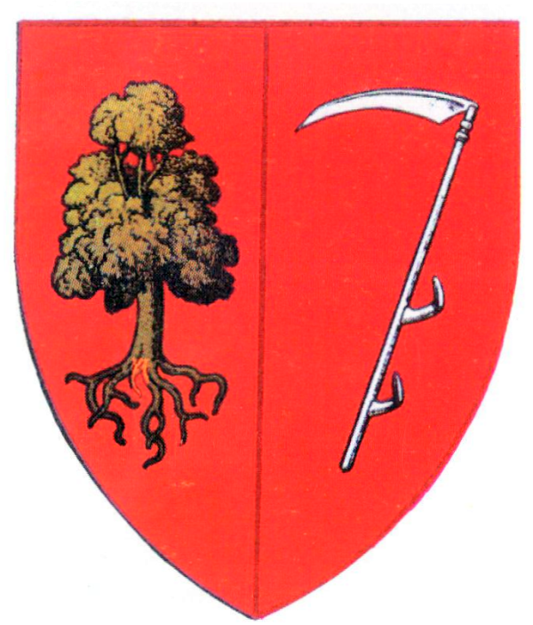 Interwar coat of arms of Orhei County, Kingdom of Romania.